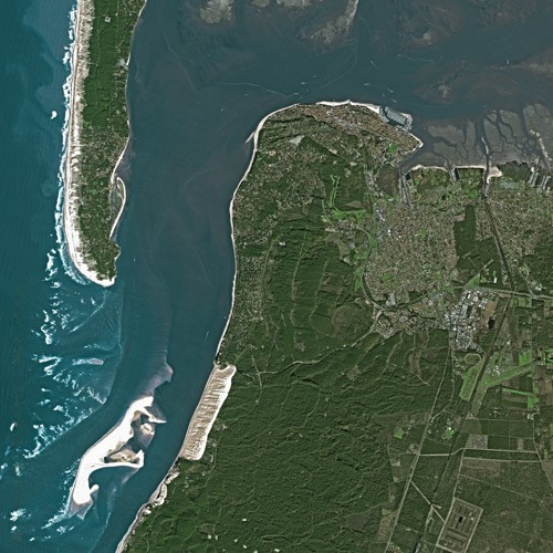 Arcachon by SPOT Satellite